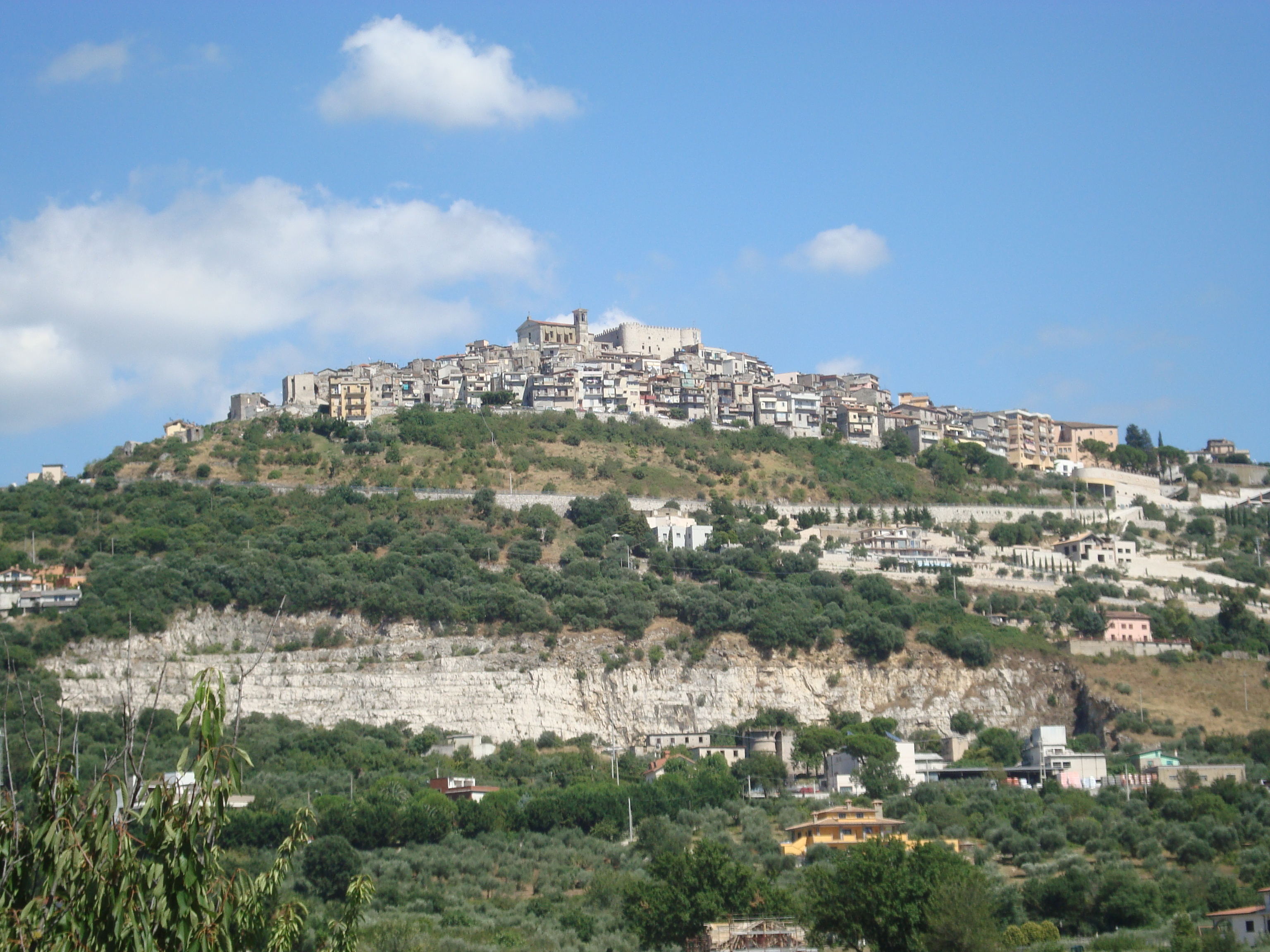 General view of Sant'Angelo Romano in Italy